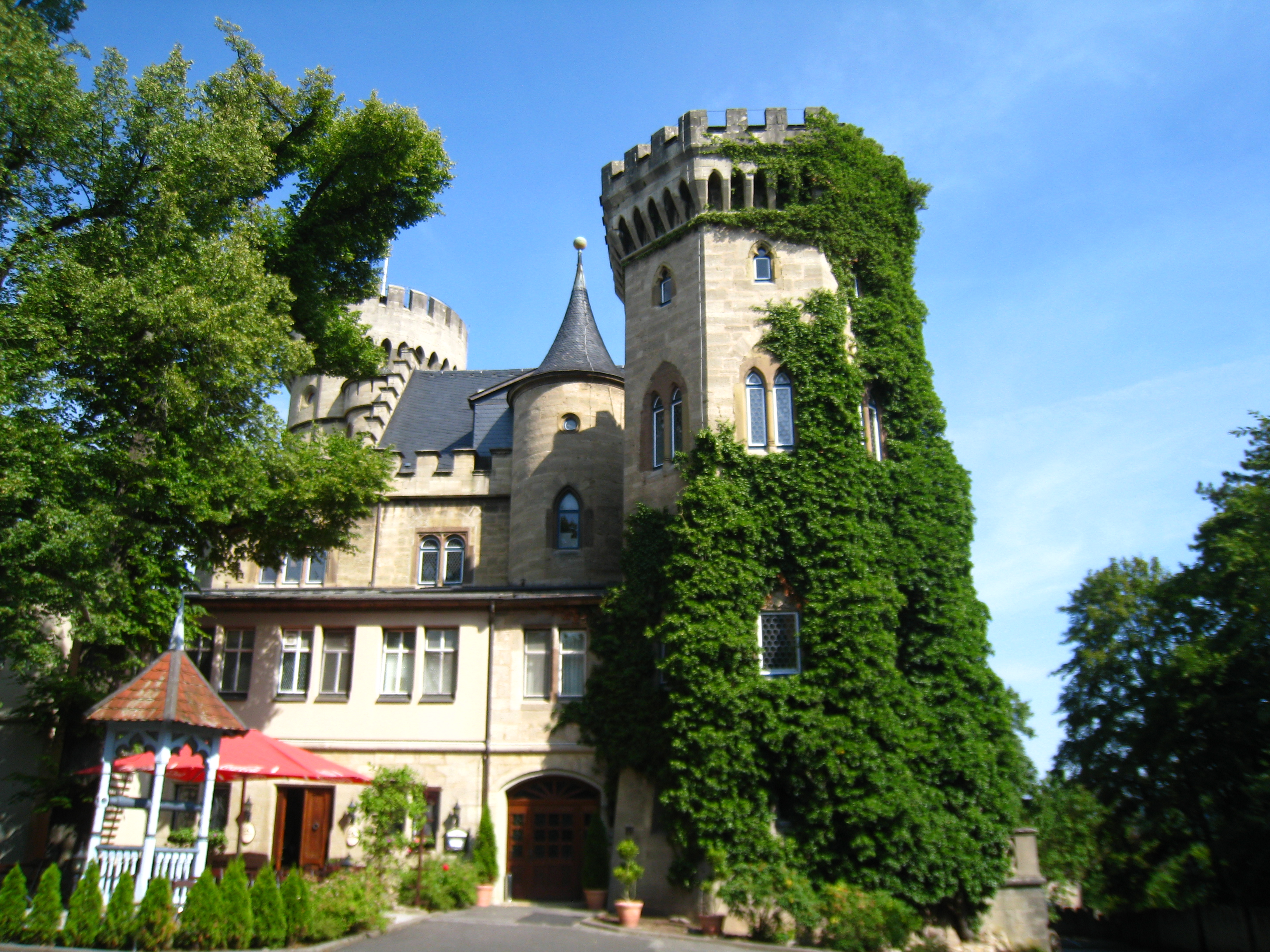 Schloss Landsberg, Meiningen, Germany